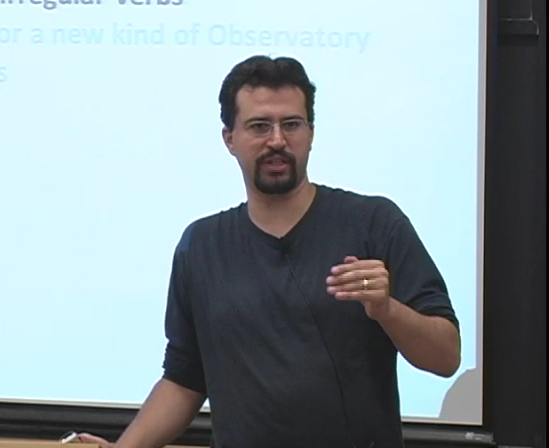 Erez Lieberman Aiden giving a lecture on culturomics at the Berkman Center for Internet and Society at Harvard University